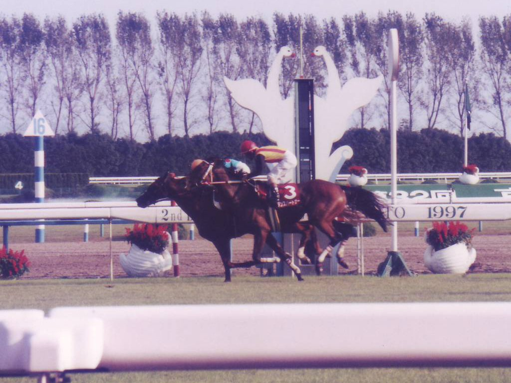 Silk Justice (back) and Dance Partner (Racehouses of Japan).